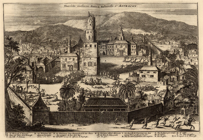 Rebelletion of Stenka Razin in Astrakhan of XVII c. Engraving from book published in Amsterdam, 1681